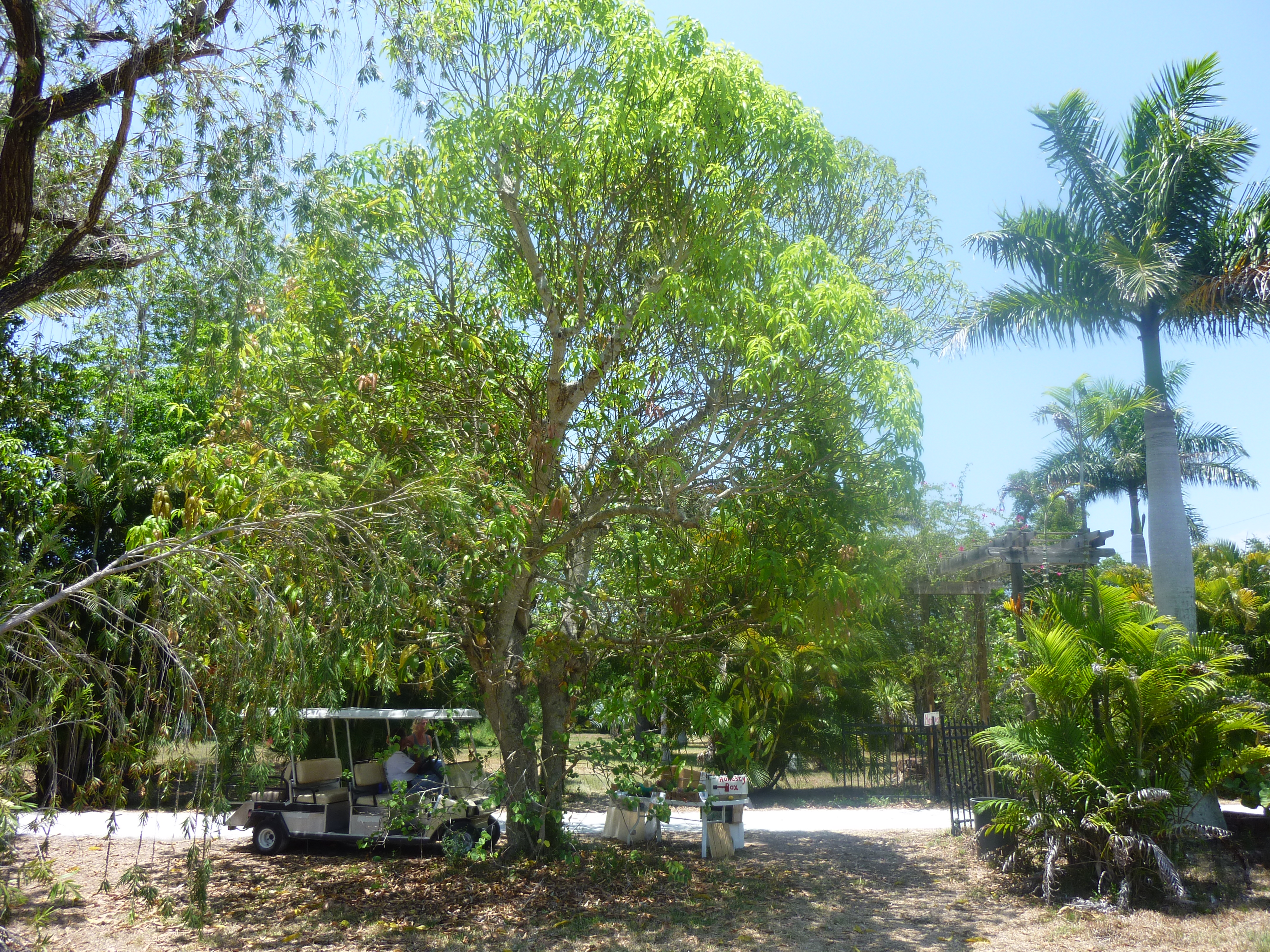 Photograph of a Sunset mango tree growing on Pine Island in Bokeelia, Florida, possibly the original of its kind.